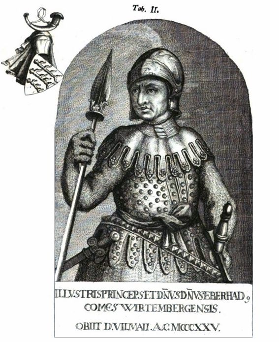 Count Eberhard I. of Württemberg (Source: Sattler)